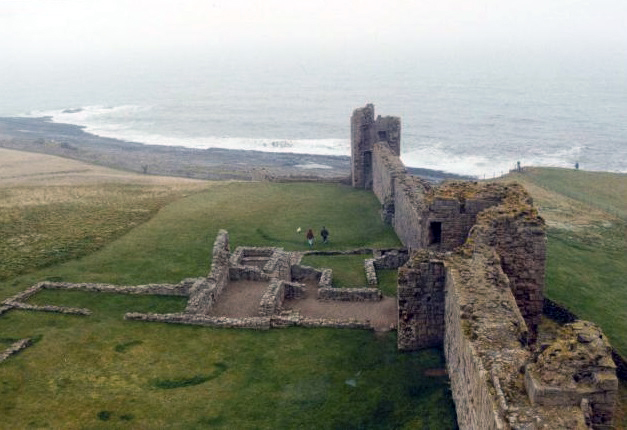 Dunstanburgh Castle. Ruins of an impressive castle built in the 14th Century